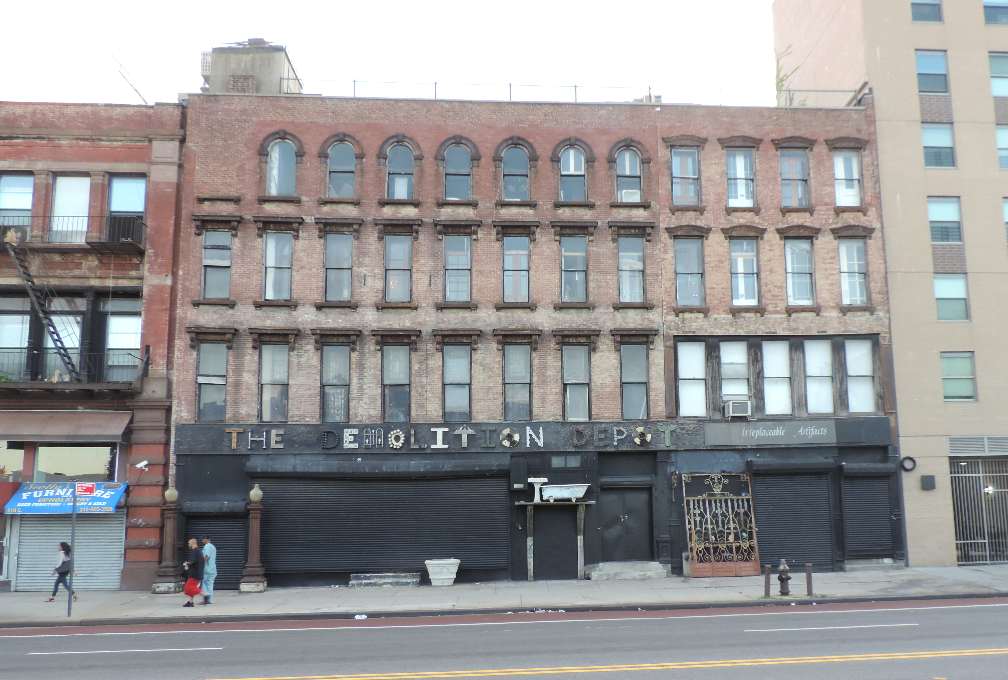 Looking south across East 125 Street near dusk.